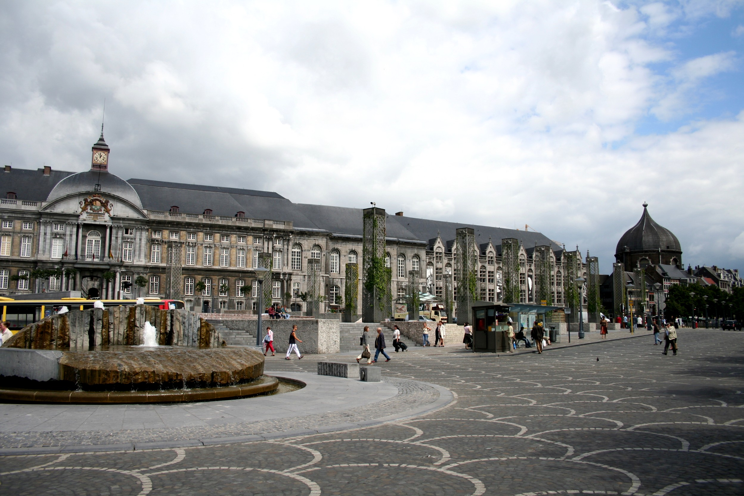 Liège (Belgium), the Saint-Lambert place and the Prince-bishops Palace.